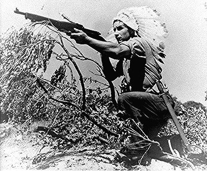 Dan Waupoose, a Menomini chief; full-length, kneeling with a rifle and wearing a feathered headdress, Algiers, La. U.S. Navy photograph, August 24, 1943. American Indian Select List number 192.